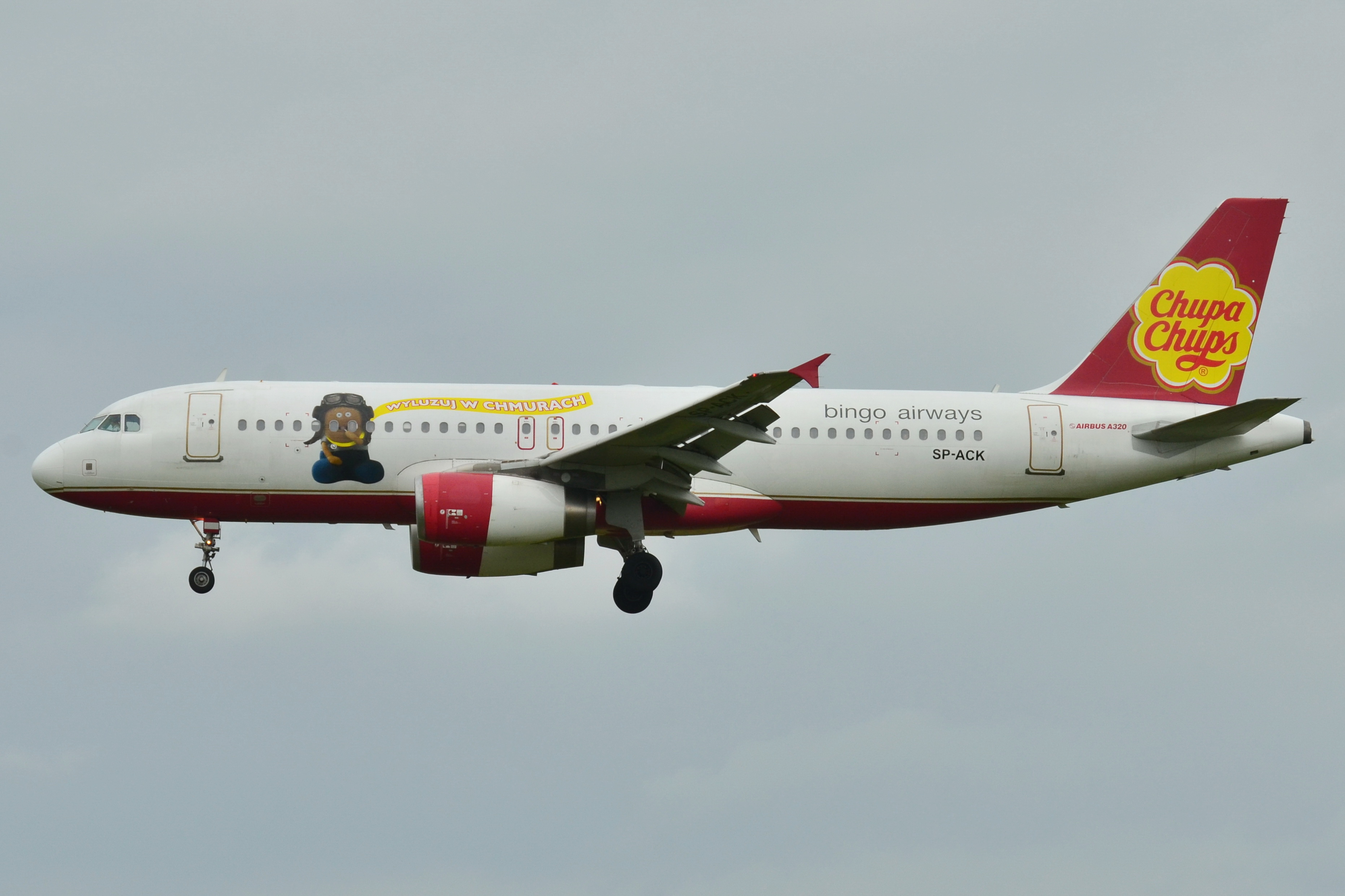 Airbus A320 of Bingo Airways in Chupa Chups livery at Toulouse-Blagnac Airport (LFBO) in France.